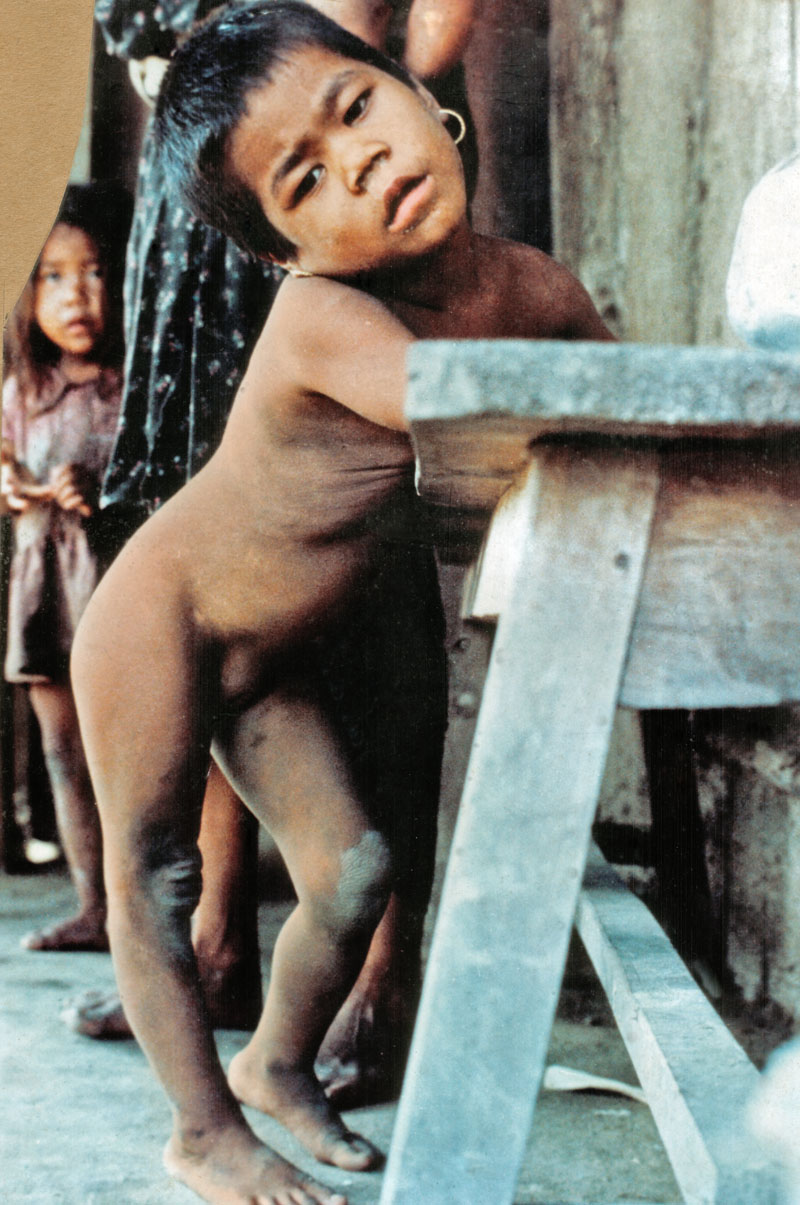 A young cretin girl in southern Bhutan. The horrors of a cretin’s life can never be comprehended, yet are preventable. Later generations in countries implementing iodine supplementation programmes are spared this age-old scourge.